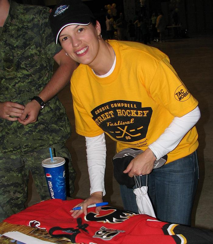 Cassie Campbell at the Olympic Oval in Calgary, signing a Calgary Flames jersey to send overseas to members of the Calgary Highlanders serving in Afghanistan. Photo courtesy of Calgary Highlanders Website.